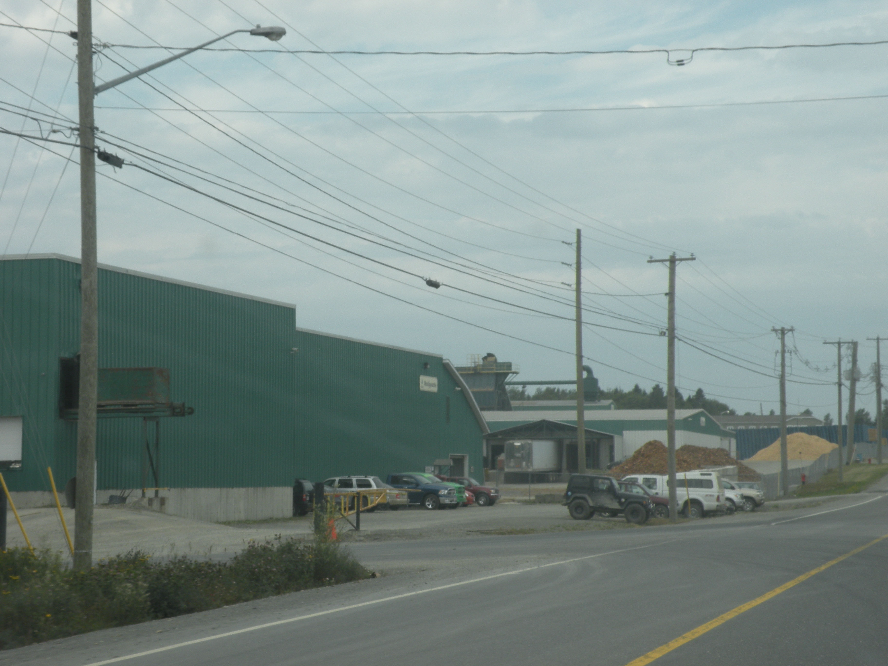 Factory of the Groupe Savoie in Saint-Quentin, New Brunswick, Canada.